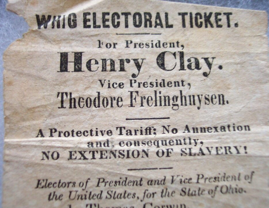 1844 handbill for Henry Clay, Whig party candidate in the US presidential election. Since it's from a Northern state (Ohio), it plays up the Whig party's anti-Texas-annexation stand as being equivalent to anti-slavery-extension. Equivalent Whig campaign literature from the southern states would probably have been quite different... ; Scanned from paper copy